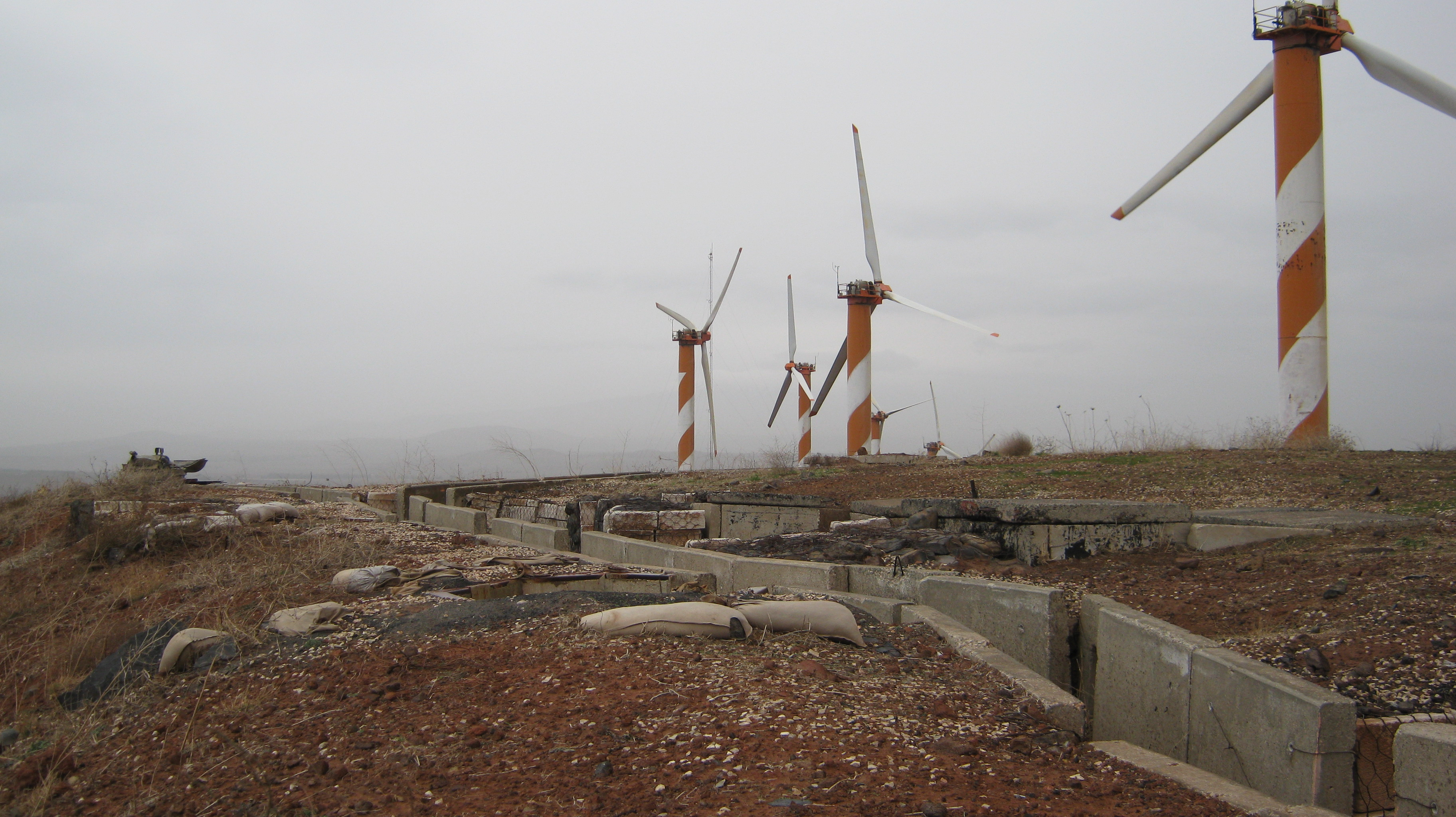 Windpark Har Bnei Rasan